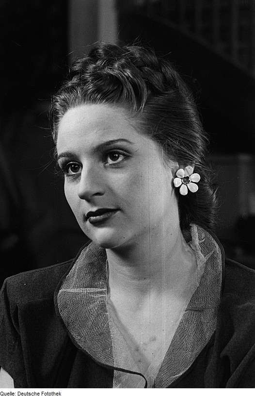 Original image description from the Deutsche FotothekPortrait Undine von Medveys